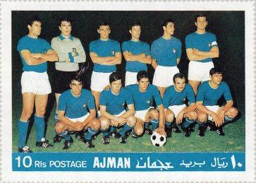 A 1968 Ajman stamp commemorating UEFA Euro 1968 champions Italy.